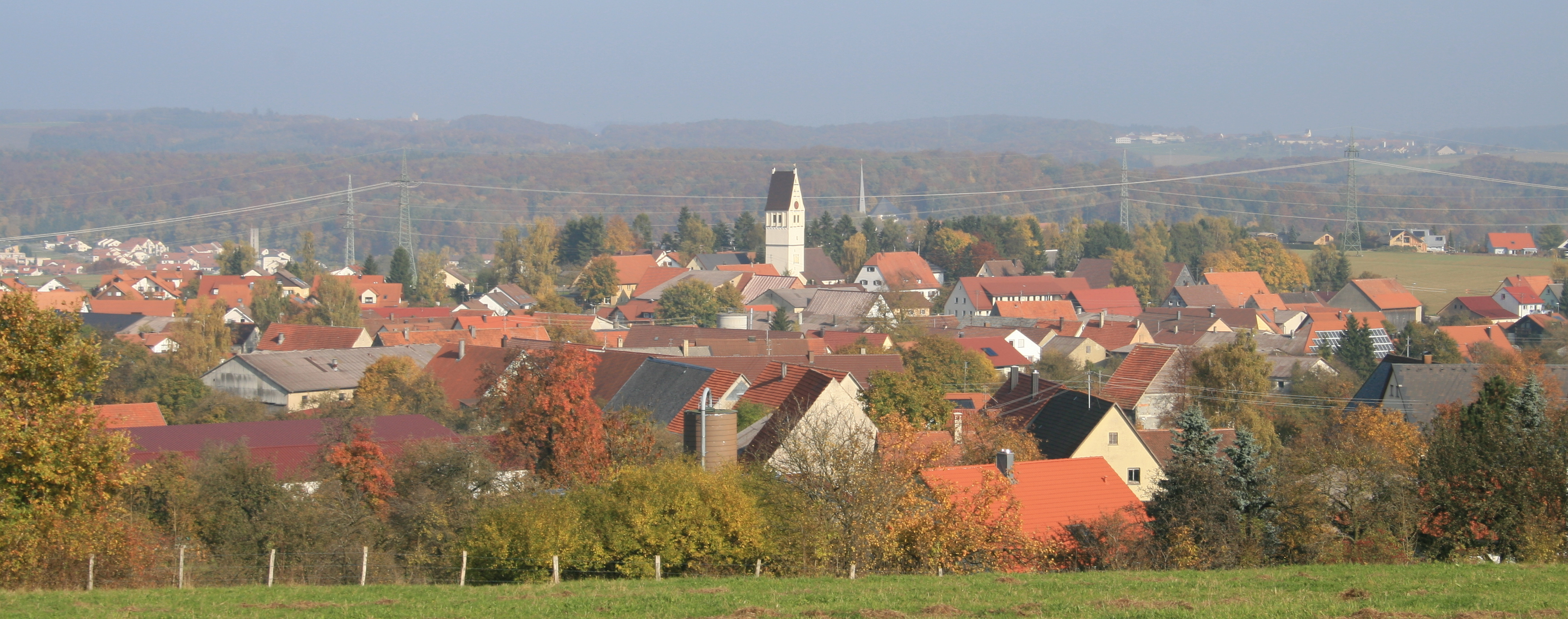 NE view of Amstetten-Dorf, as seen from the Bergweg